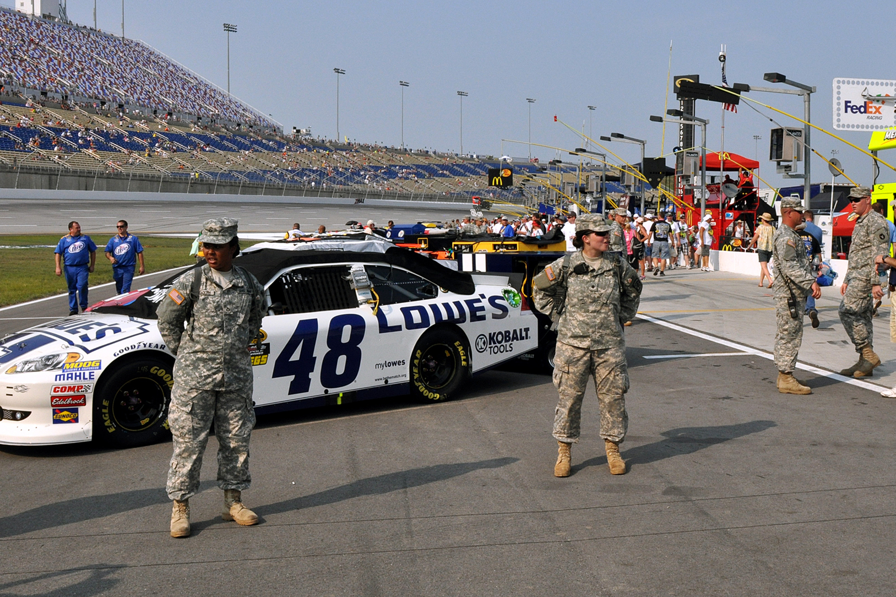 Pfc. Danielle Randolph of Lexington, and Cadet Kathryn Keefe of Cincinnati, Ohio, both with the 1204th Aviation Support Battalion stand watch on pit road of the Kentucky Speedway in Sparta, Ky., prior to the start of the Quaker State 400 NASCAR race, June 30, 2012. Kentucky Guardsmen augmented local law enforcement to secure various areas of the track before, during and after the race. (Kentucky National Guard photo by Sgt. Scott Raymond)